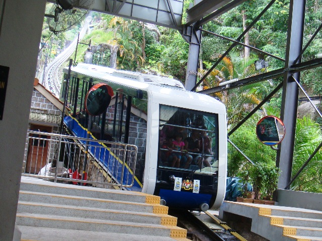 A Funicular to the top of the Penang Hill, Georgetown (Malaysia).